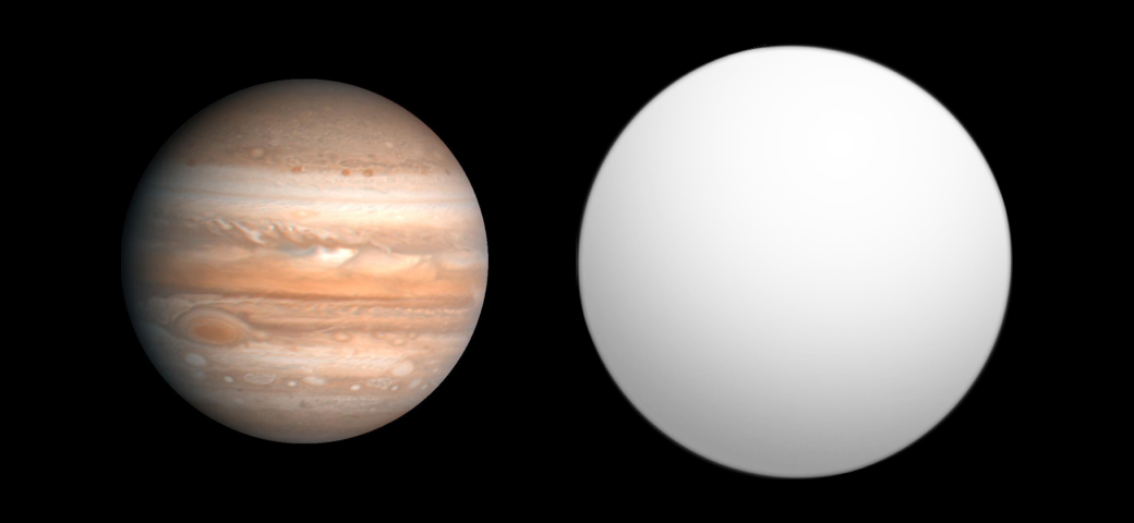 Comparison of best-fit size of the exoplanet XO-1 b with the Solar System planet Jupiter, as reported in the Open Exoplanet Catalogue[1] as of 2010-09-30. ↑ Open Exoplanet Catalogue (2010-09-30). Retrieved on 2010-09-30.